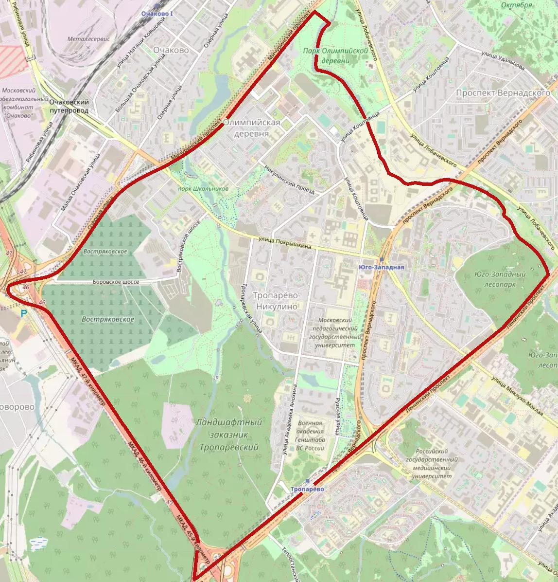 The map of Troparevo-Nikulino district of Moscow